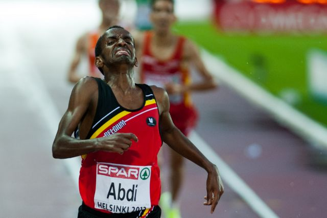 Bashir Abdi finishing his 10,000 m at the 2012 European Championships in Athletics, Helsinki.